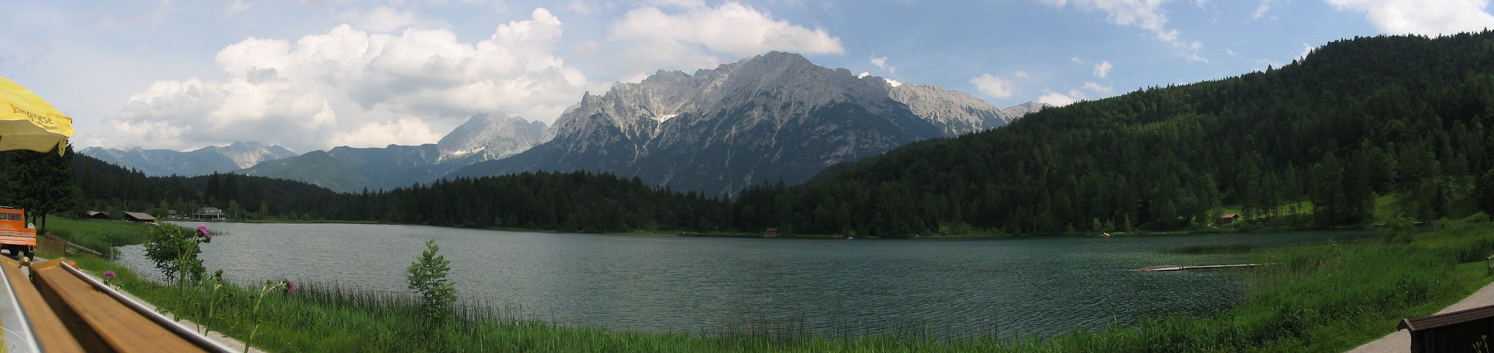 Mittenwald, Lautersee panorama with the Karwendel mountains.